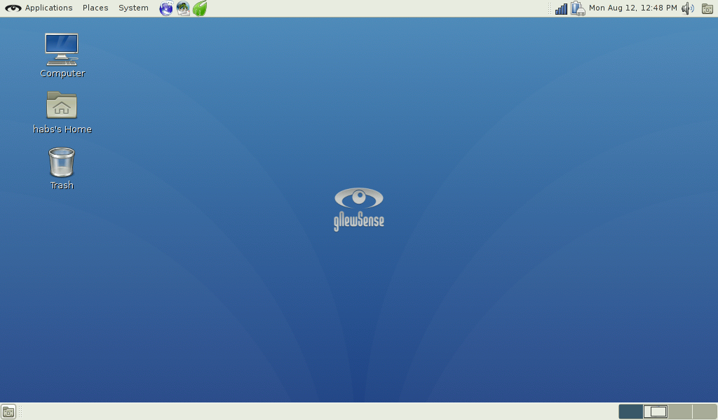 the gnewsense home screen.